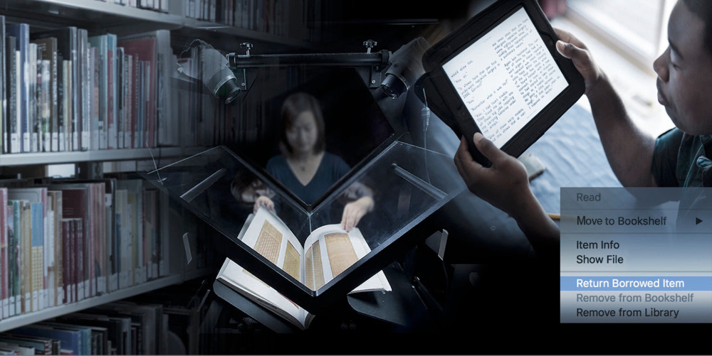 Representation of a digitization and digital borrowing process